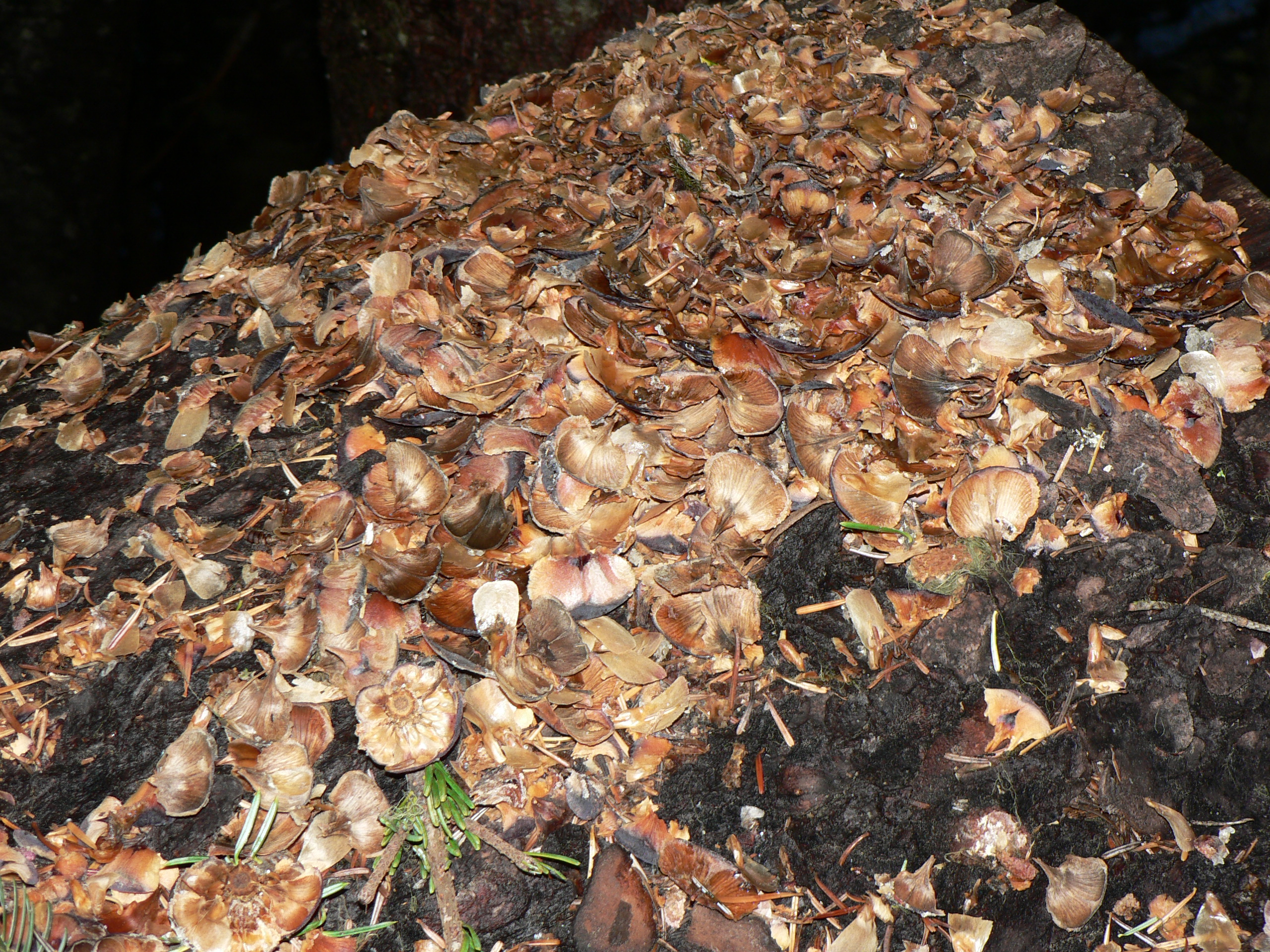 Pacific Silver Fir cone debris from feeding Douglas Squirrels (Tamiasciurus douglasii)